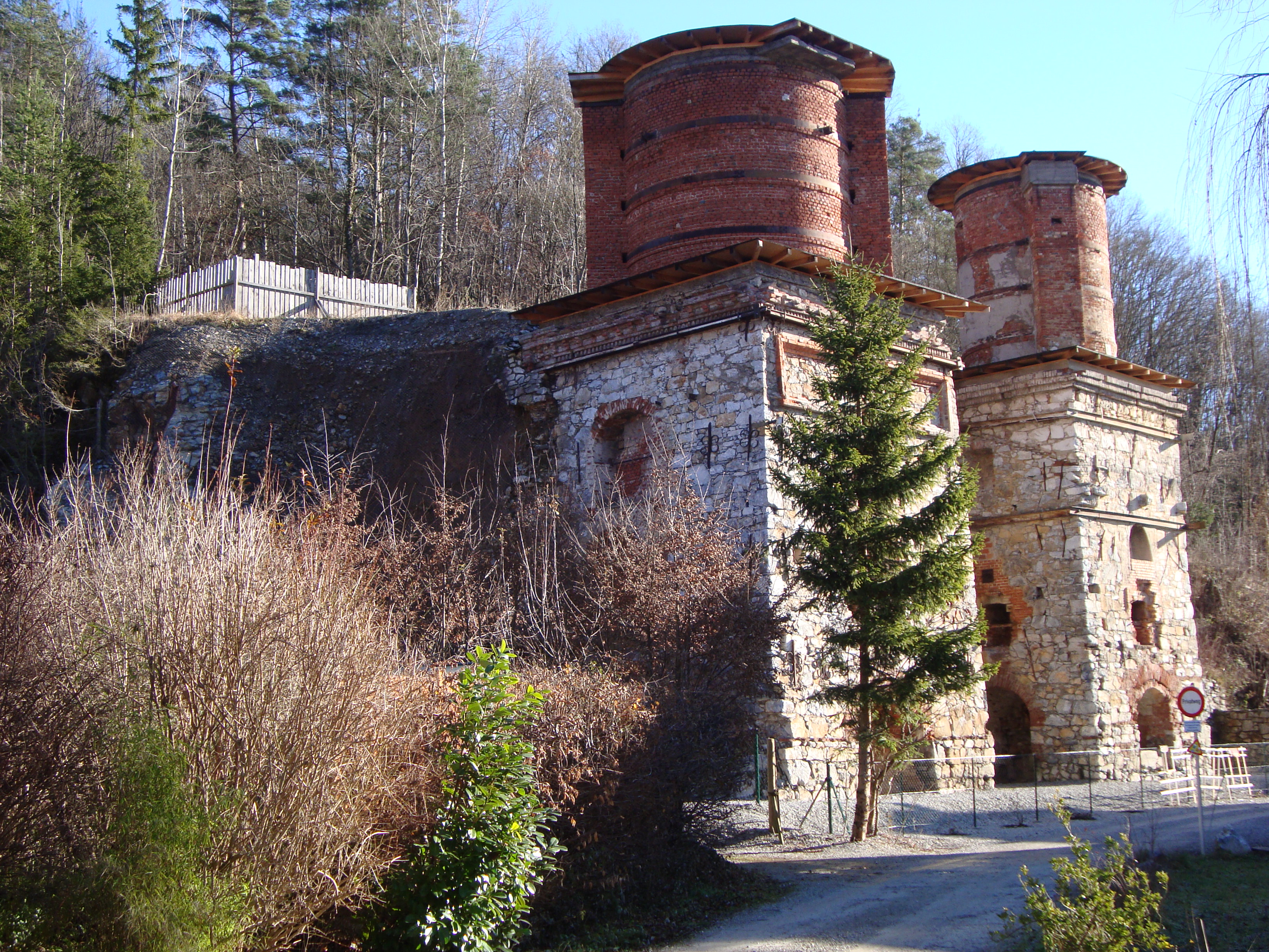 old lime kiln in Stattegg, Styria, Austria